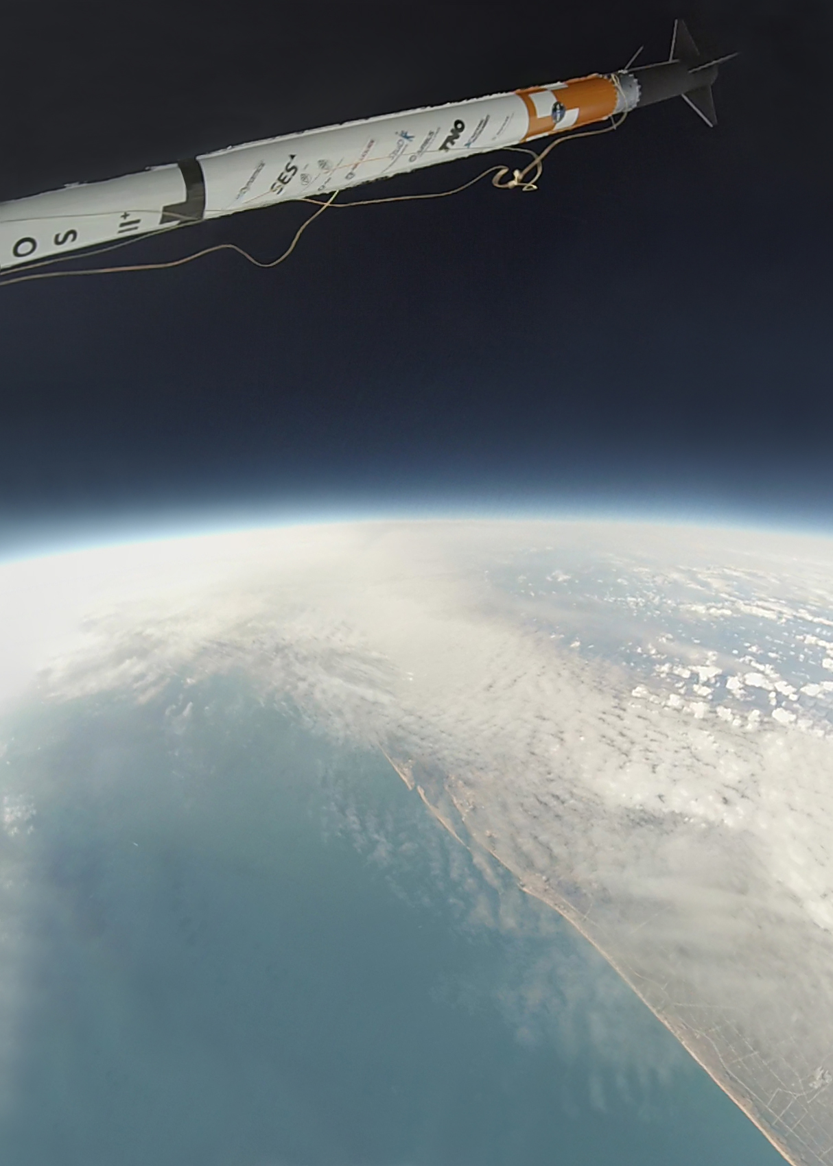 The view from onboard Stratos II+ at apogee over southern Spain